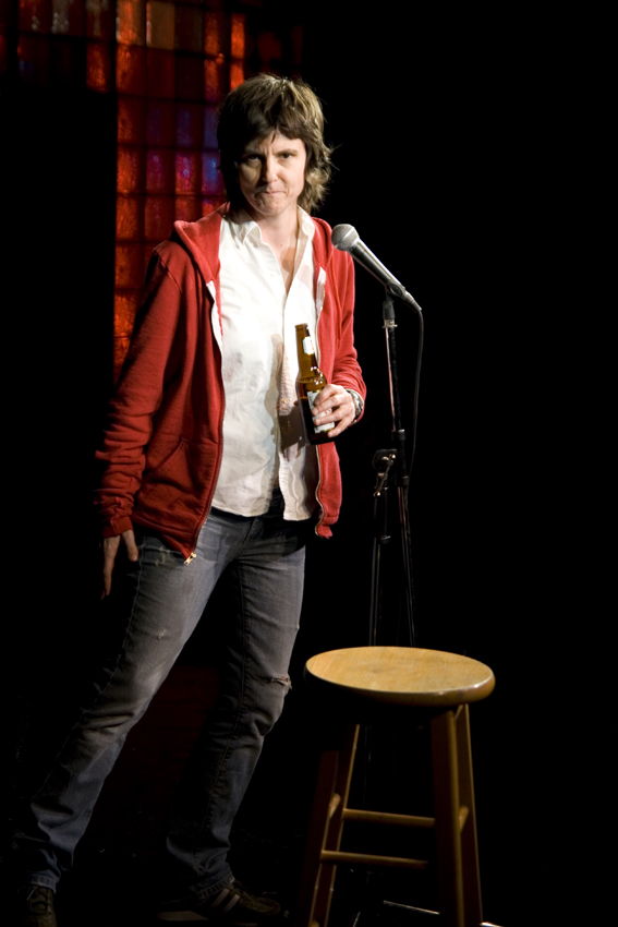 Tig Notaro at SXSW Comedy Fest 2010, Esther's Follies, The Velveeta Room, Austin Texas